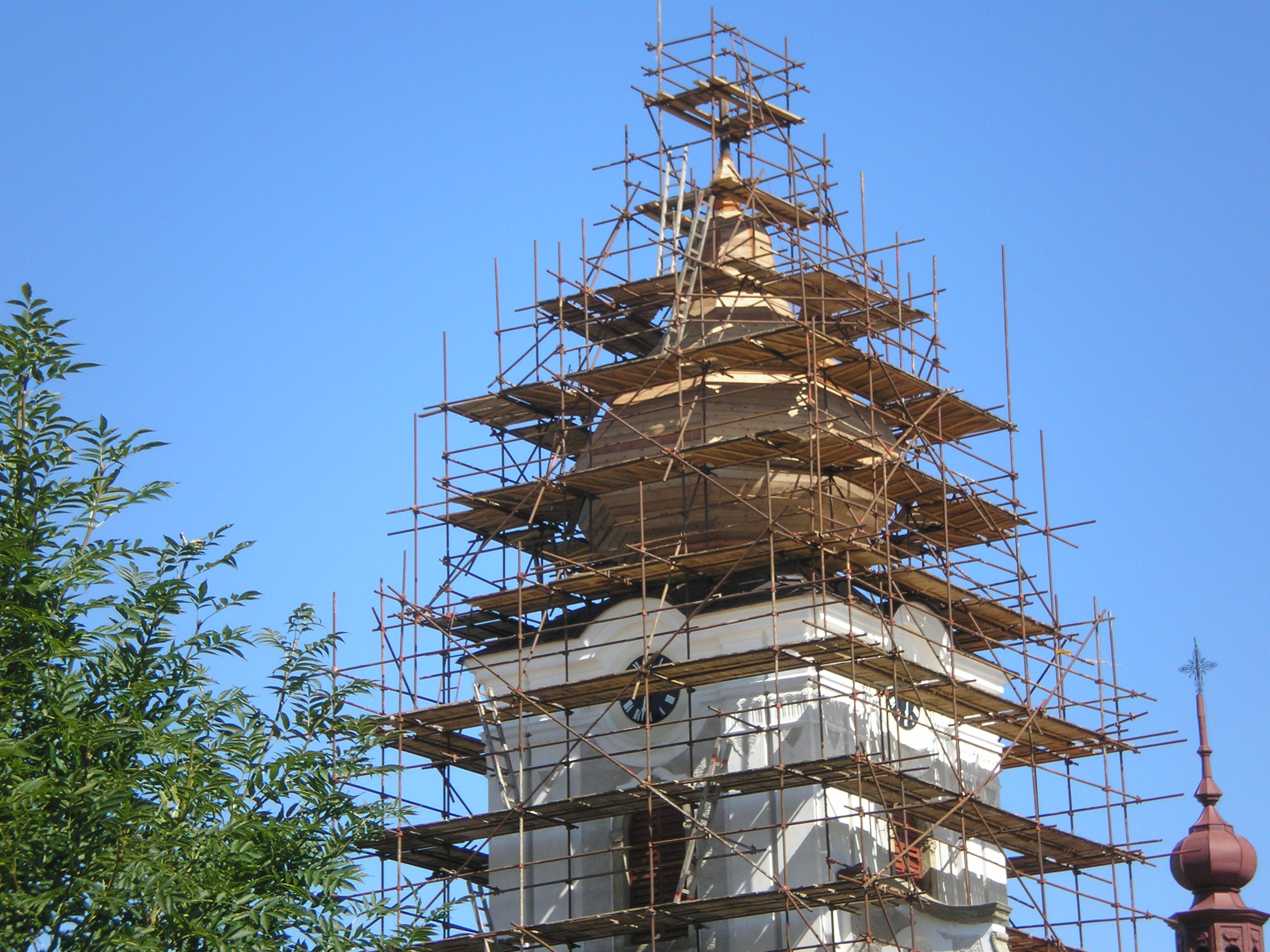 Svinčany, tower of the church